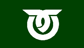 Flag of Kawakami Nagano